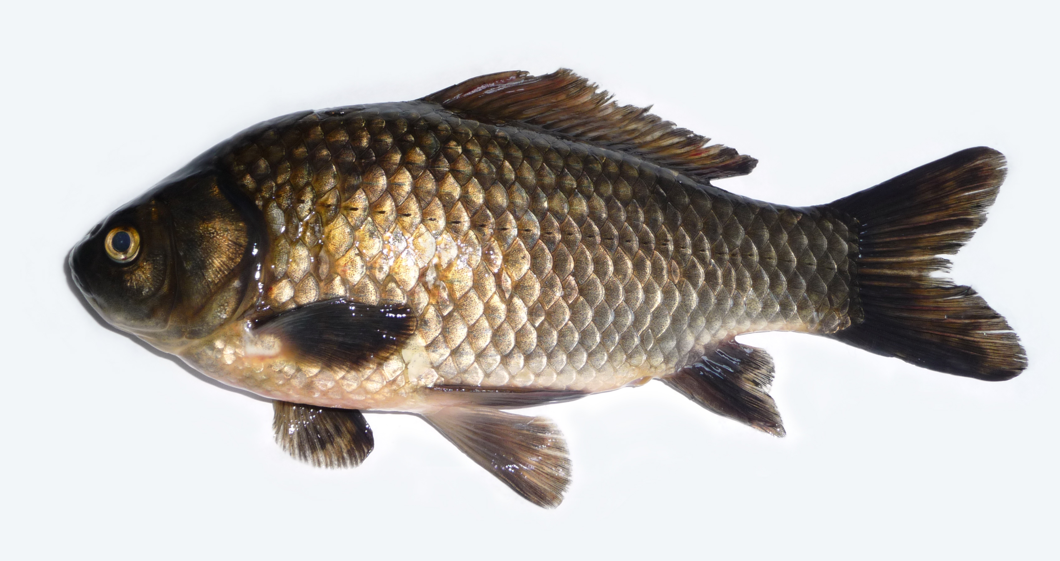 The prussian carp female (Carassius gibelio) with uncommon dark colour. This fish from the Southern Bug river, Ukraine.